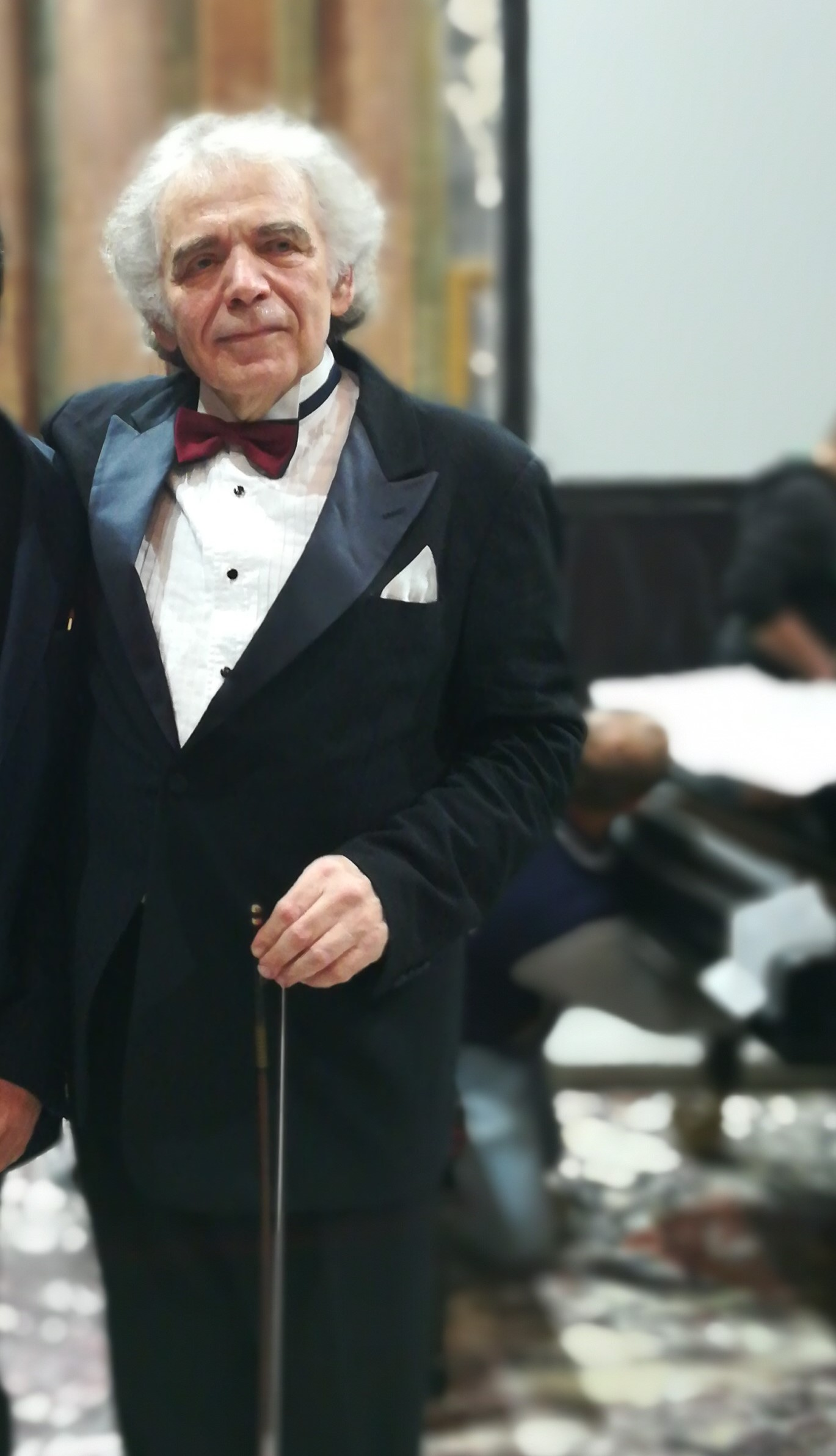 Zakhar Bron in Genoa, Italy (2018)